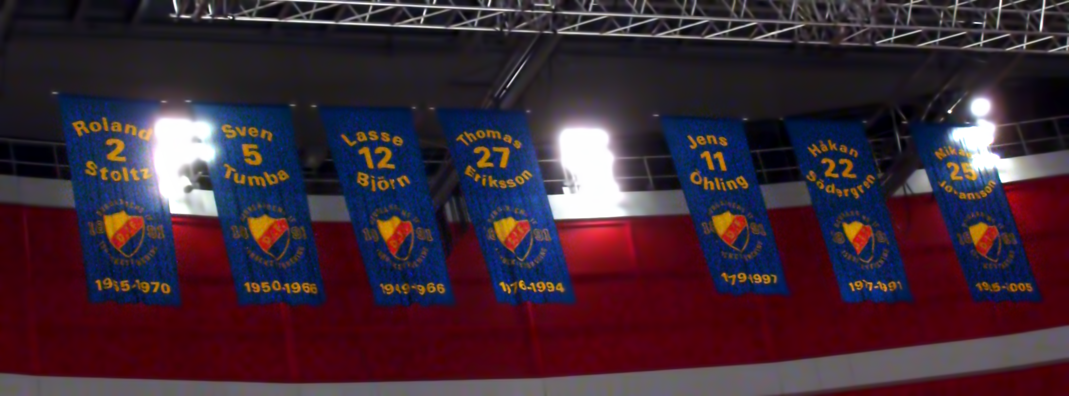 Banderoles with ice hockey players from Djurgården Hockey, Sweden.